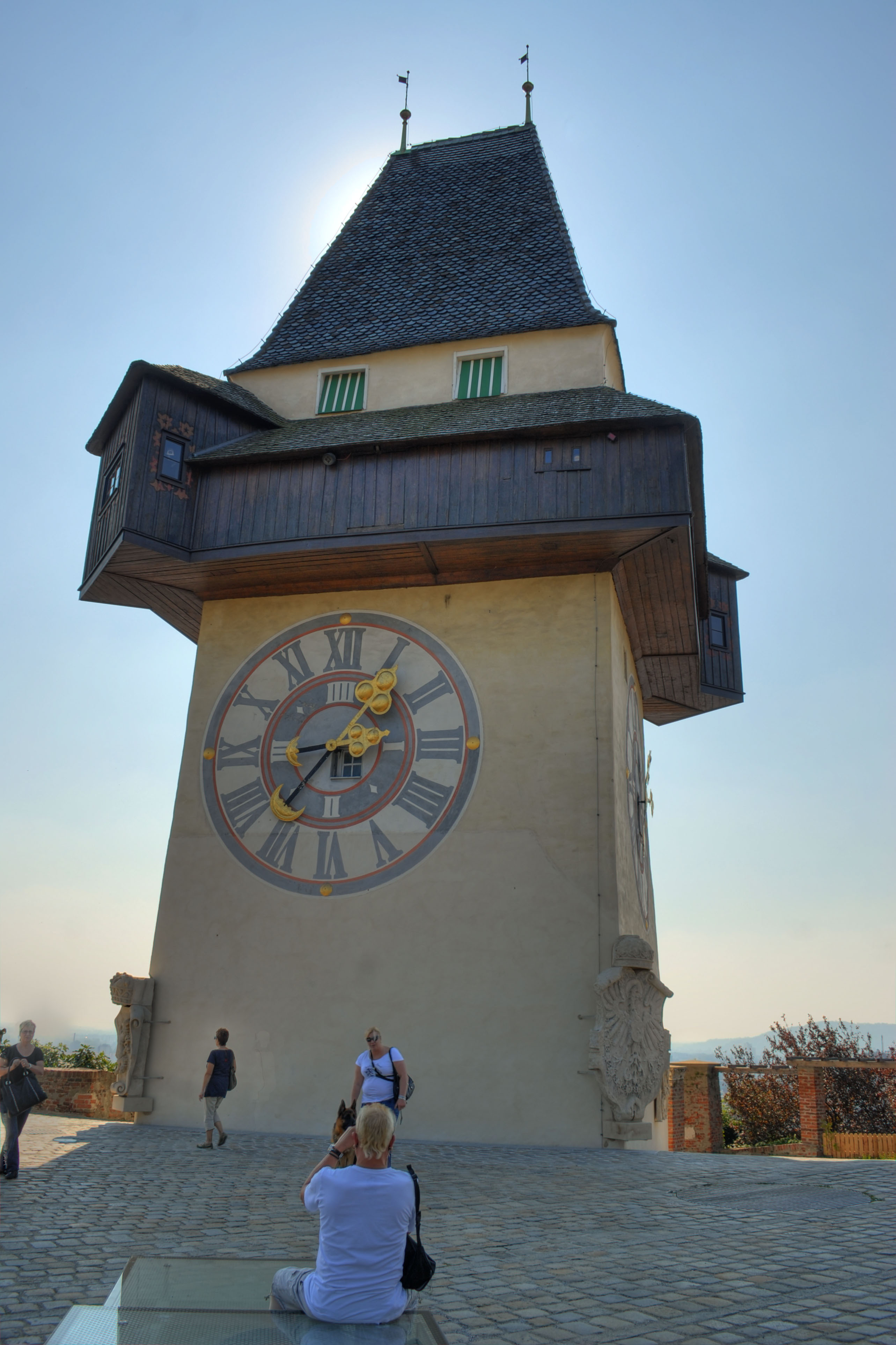 The Clock Tower